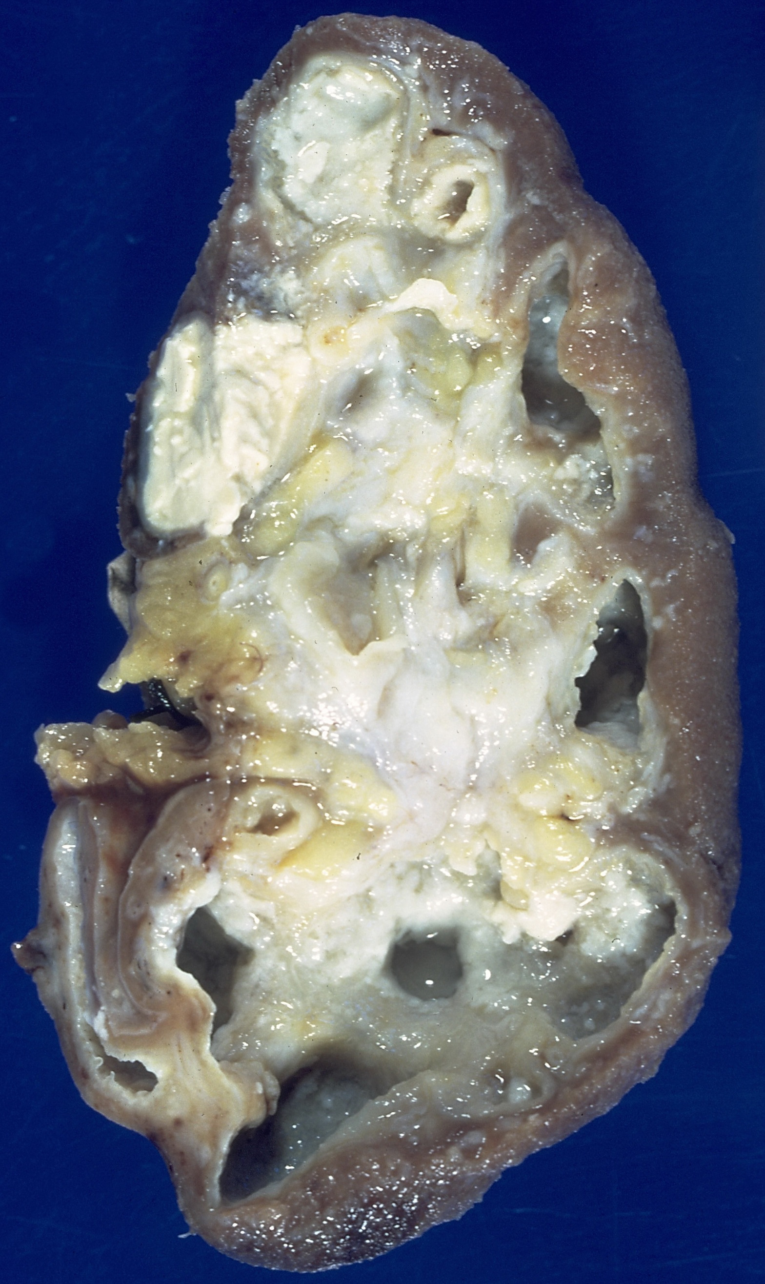 This image provides a good example of "caseous necrosis" The "cheesy" appearance of the necrosis is due to incomplete proteolytic digestion of the necrotic tissue and is apparent only on gross or macroscopic examination. The terms "caseous", "caseating" and "caseation" are often used erroneously to describe the microscopic appearance of necrotizing granulomas.